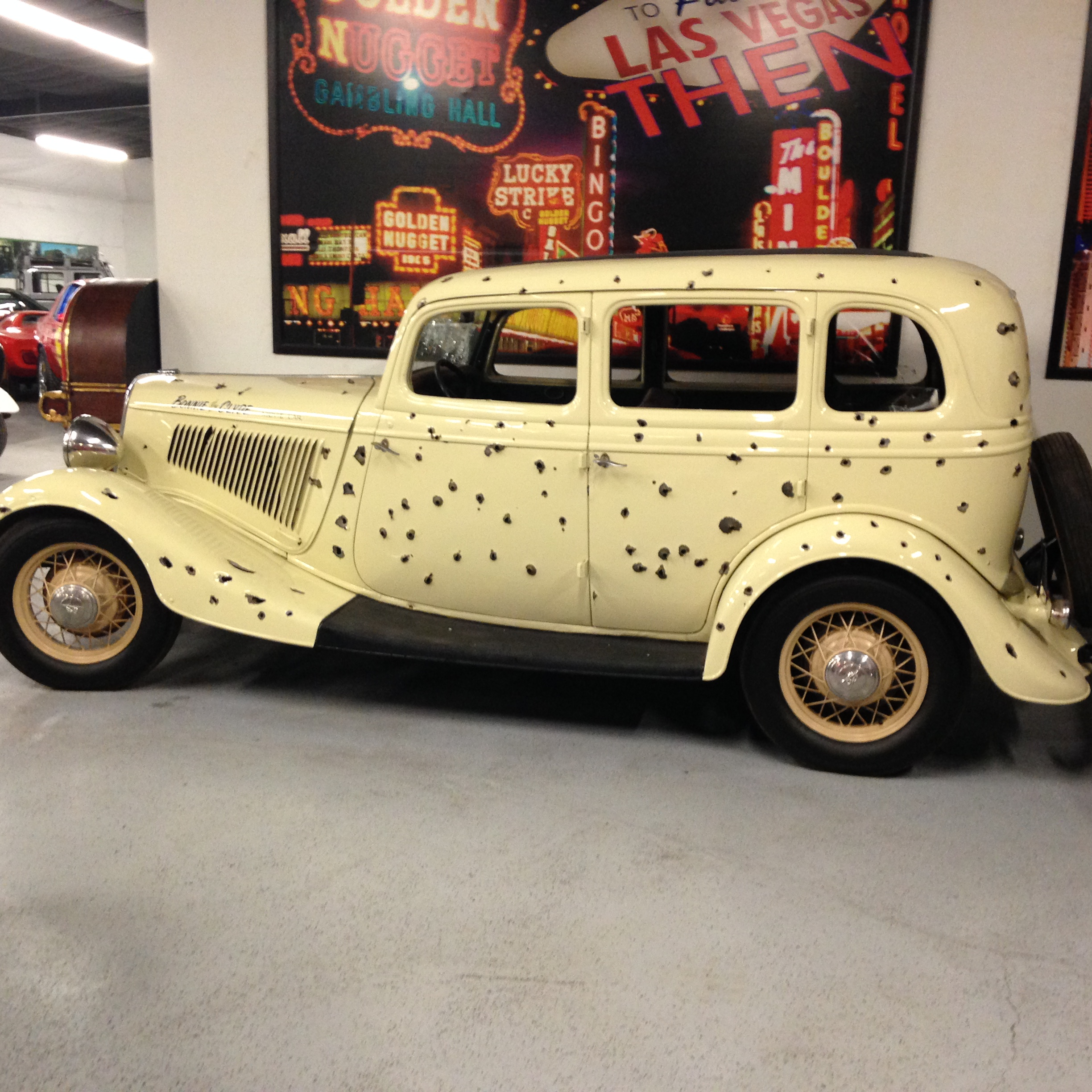 Replica of the Ford V8 in which Bonnie and Clyde died, made for the the film Bonnie and Clyde, on display at the Hollywood Car Museum.